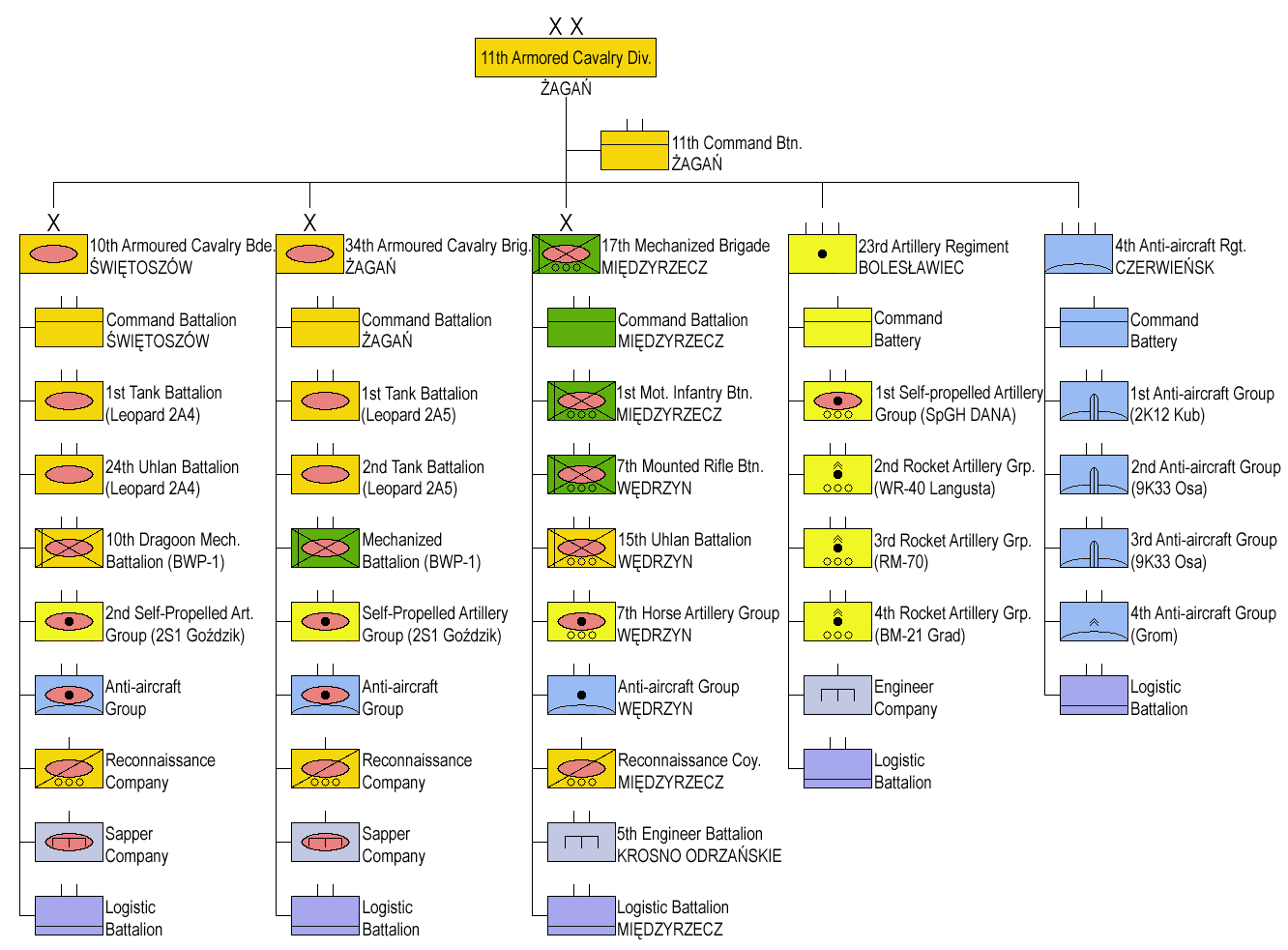 Structure of the Polish Army's 11th Armoured Cavalry Division